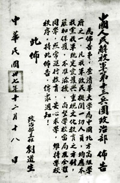 The Notice of PLA for the Tsinghua University in 1949.